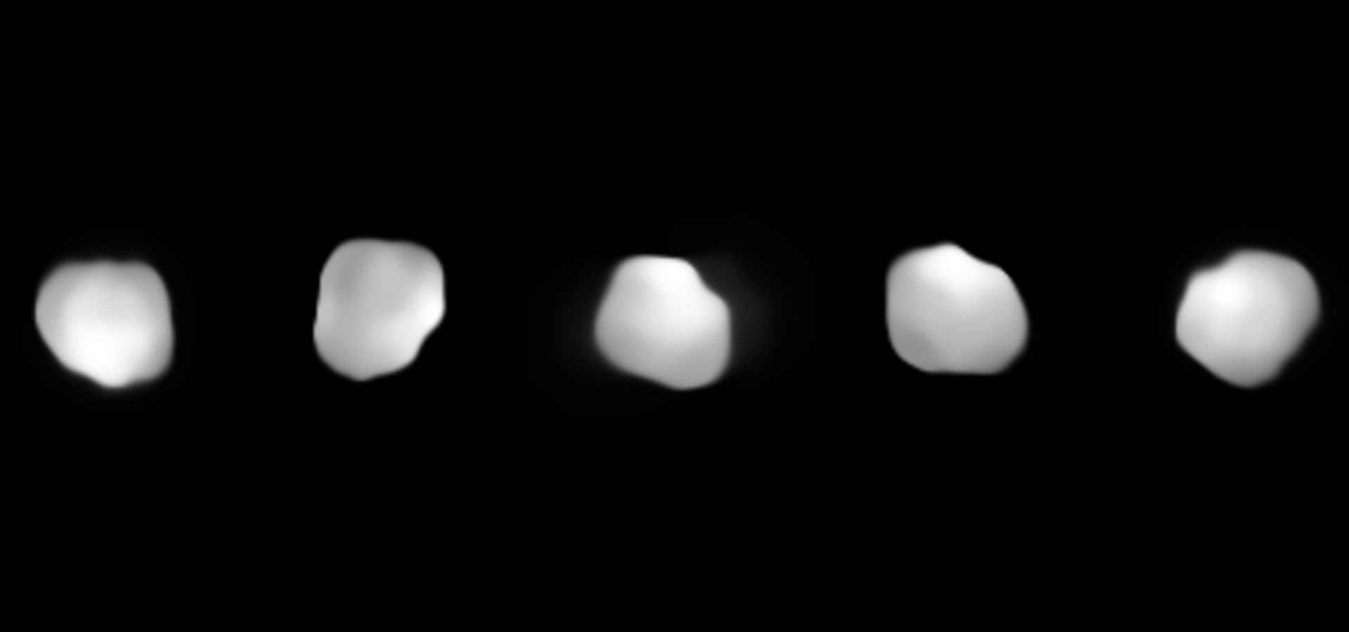 Images of Psyche from the HARISSA survey